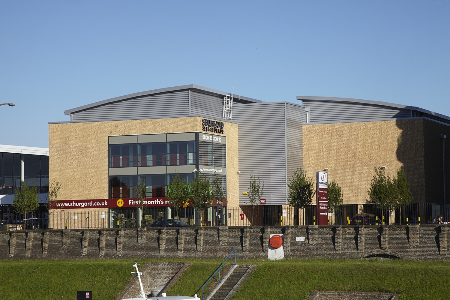 This is a picture owned by Shurgard Self-Storage